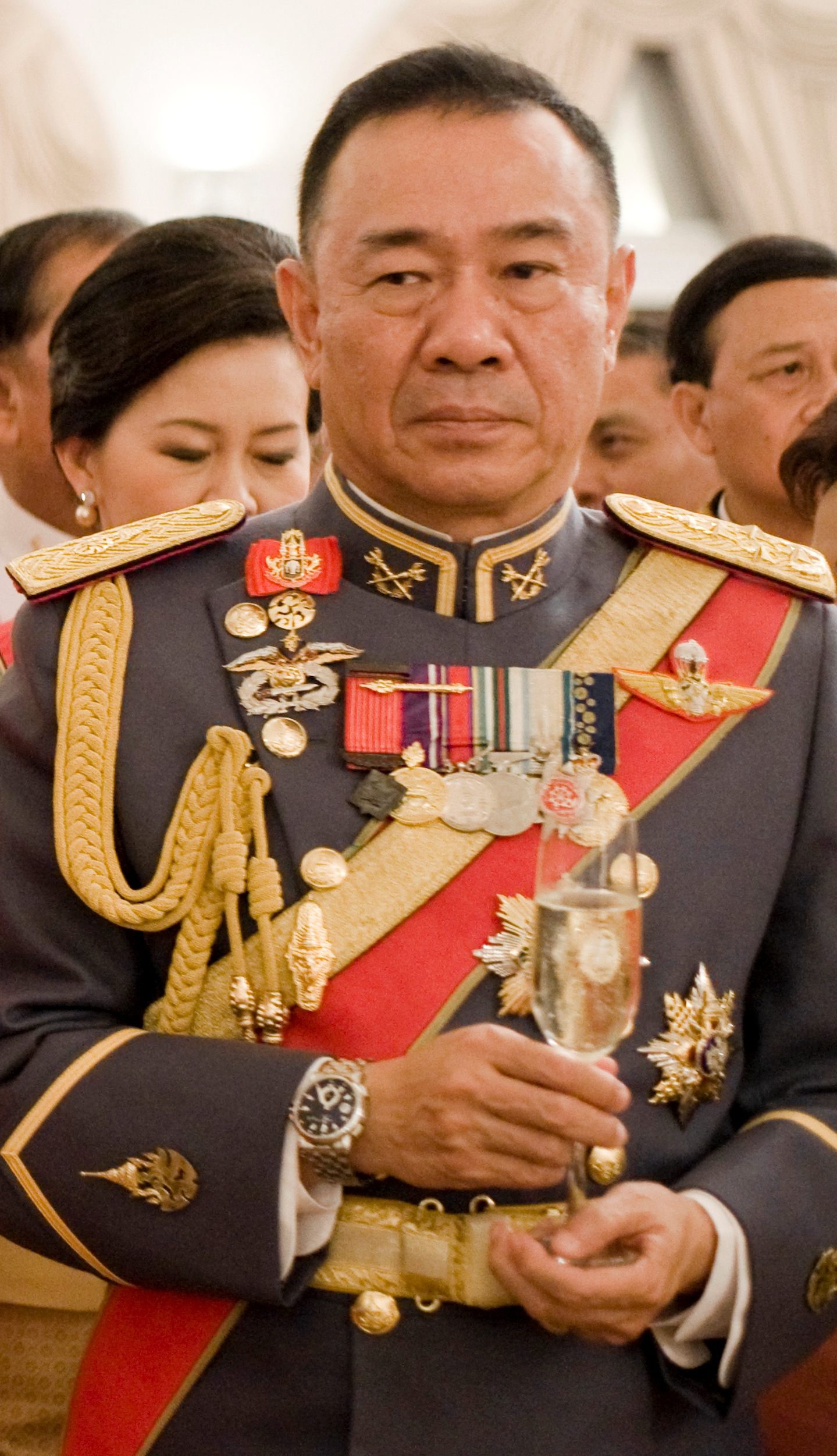 Royal Thai Armed Forces Supreme Commander General Songkitti Chakkrabat